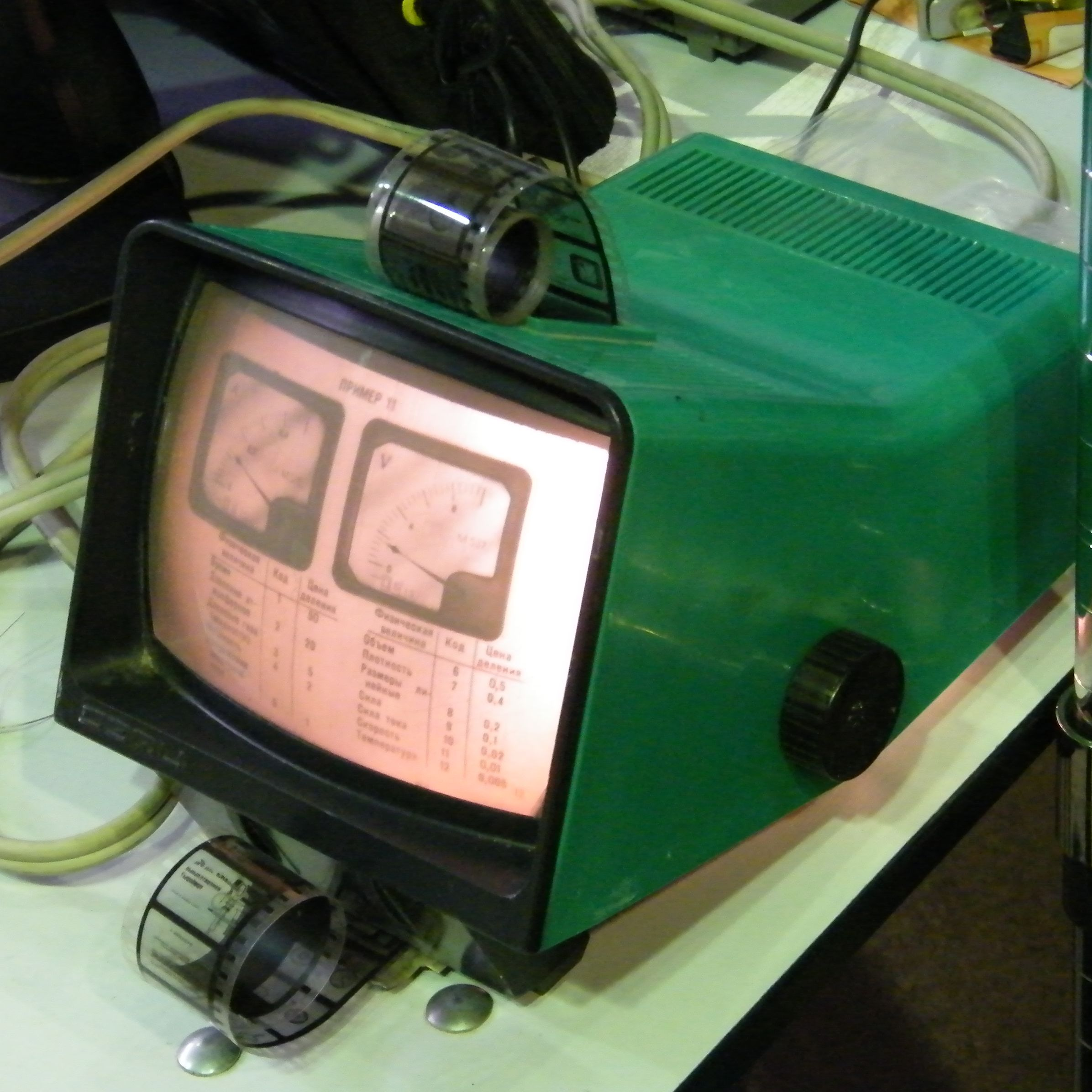 Children's slide projectors device DEF-4 with viewing on the built in screen (1980th years). On the image observable on the screen of a slide projectors device copyrights do not extend, as the image consists of the conditional image of the measuring device and the elementary table with figures. The conditional image of the measuring device consists of direct lines and circles and can be easily repeated by independently any person. The table can be repeated independently and copyrights to it do not extend.